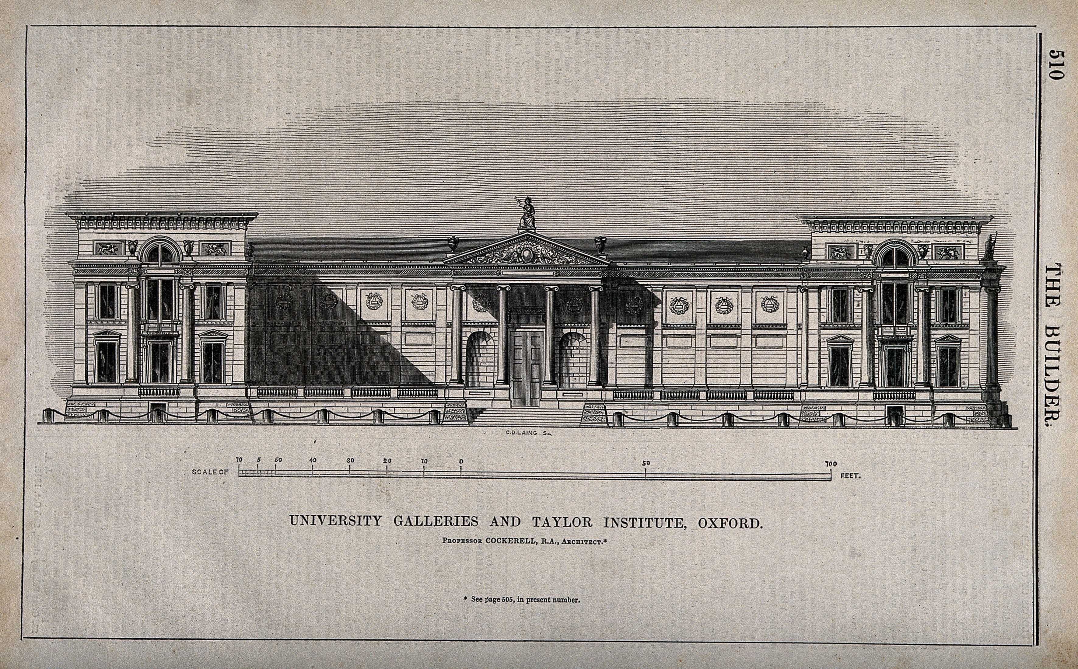 Ashmolean Museum and Taylorian Institute, Oxford: panoramic view. Wood engraving by C.D. Laing after C.R. Cockerell. Iconographic Collections Keywords: Charles D. Laing; Charles Robert Cockerell; University of Oxford; Taylor Institute (Oxford, England); Ashmolean Museum (Oxford)